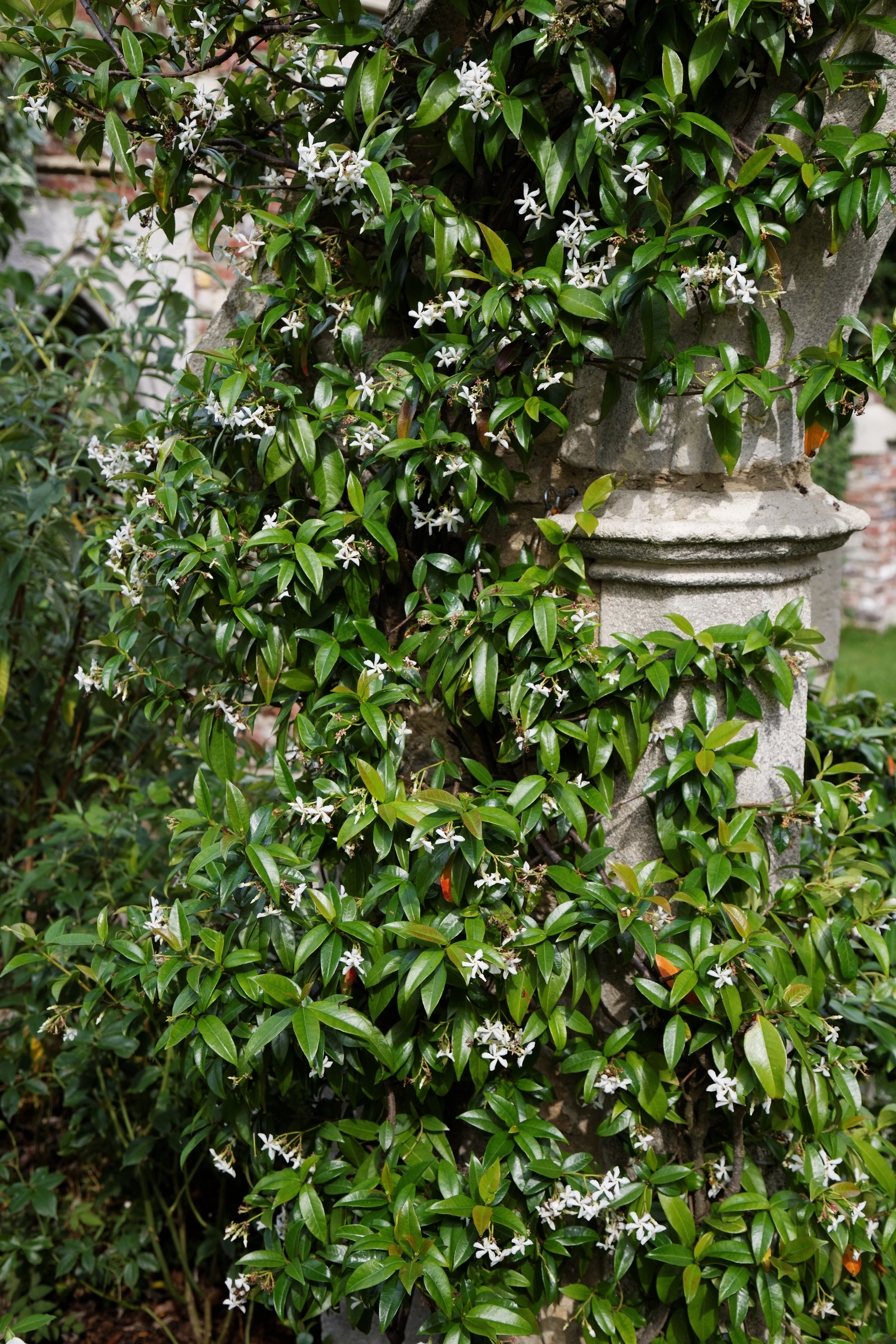 Trachelospermum jasminoides, or star jasmine, confederate jessamine, and Chinese star jessamine, at Capel Manor College and Gardens, Bulls Cross, Enfield, London, England.Software: RAW file lens-corrected, optimized and converted to JPEG with DxO OpticsPro 10 Elite, and likely further optimized and/or cropped and/or spun with Adobe Photoshop CS2.